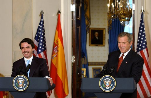 President George W. Bush and President Jose Maria Aznar of Spain hold a joint press conference in Cross Hall